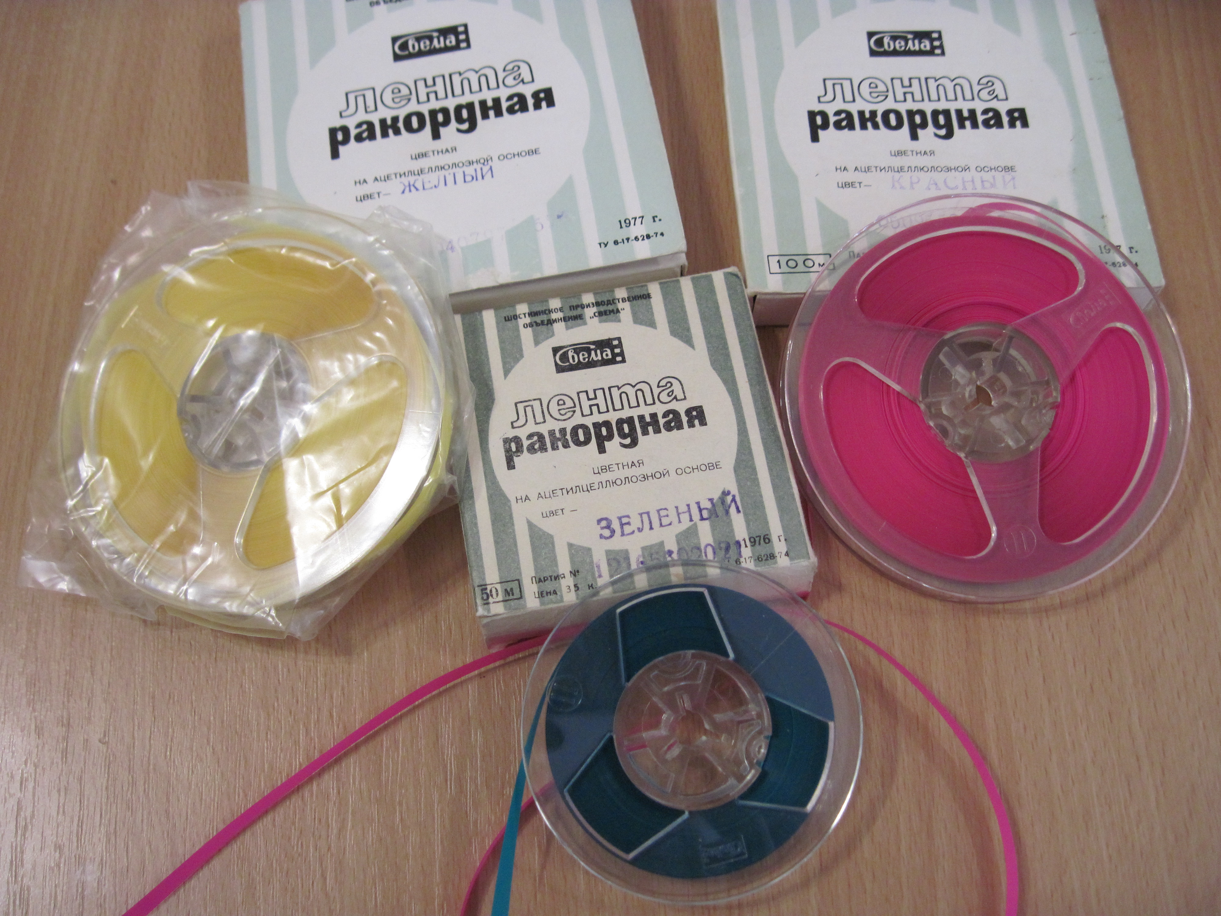 leader/foot tape for 6,25 mm magnetic tapes (USSR)